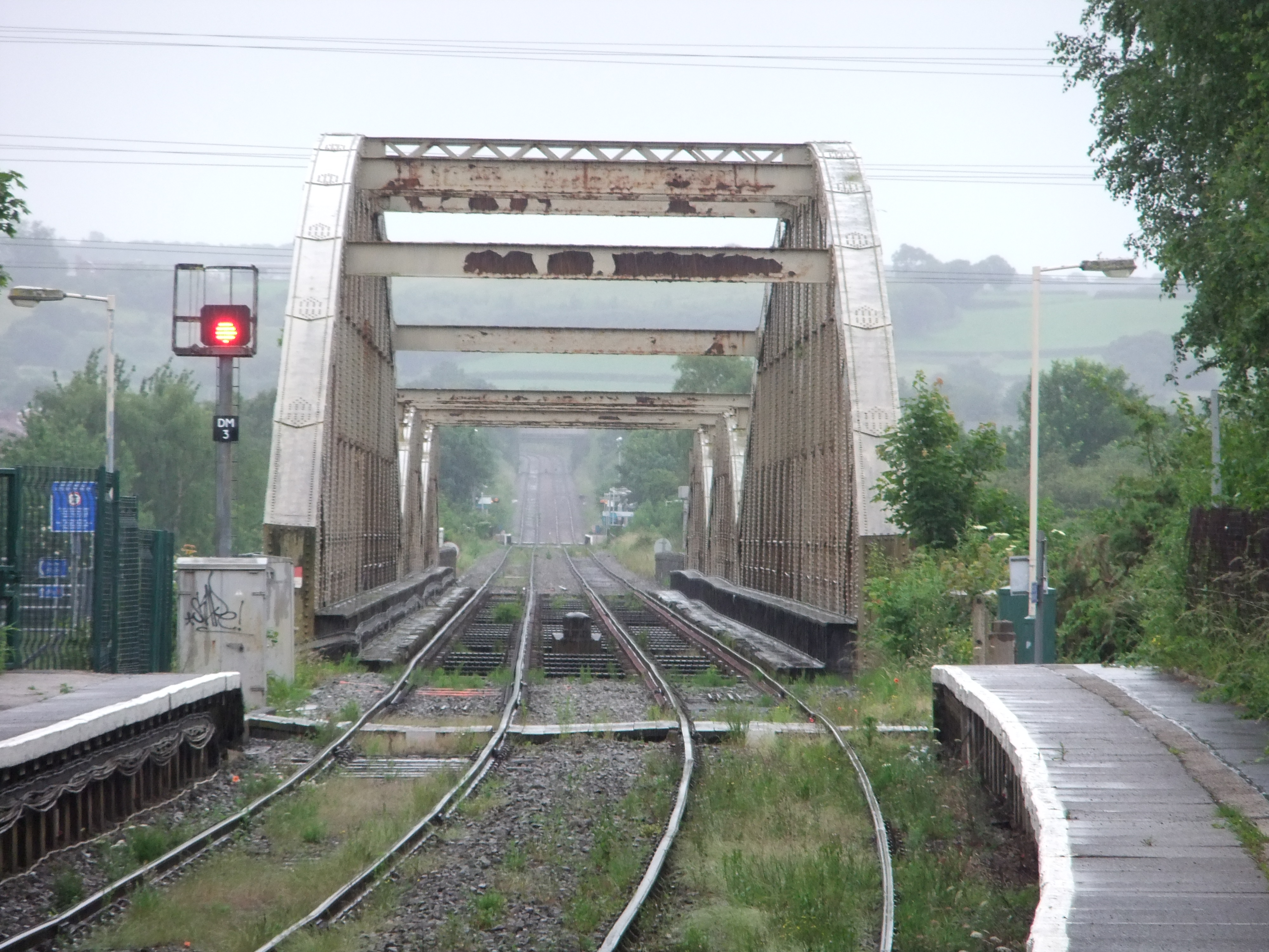 Photo taken at Hawarden Bridge, Flintshire, Wales.